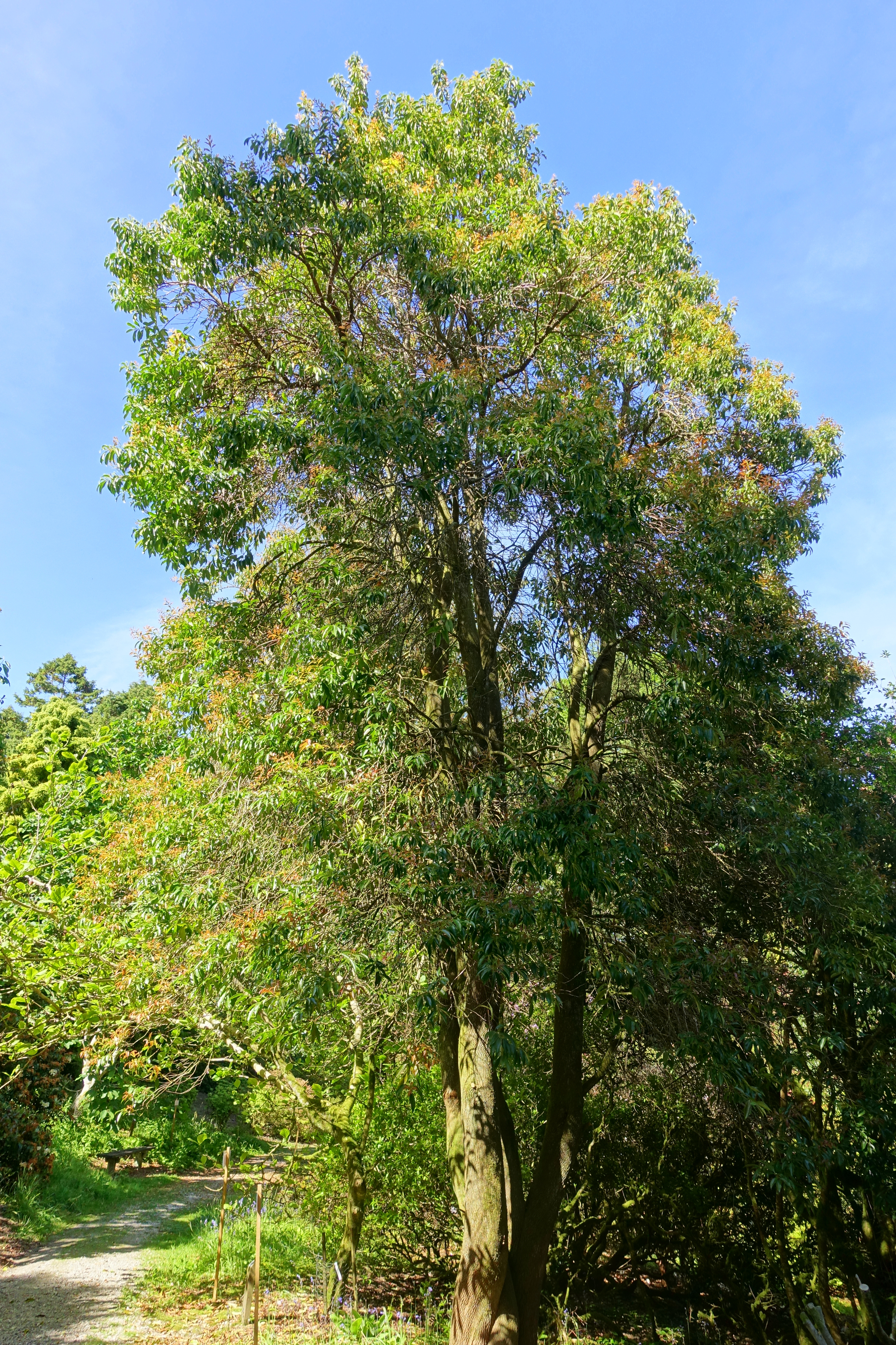 Botanical specimen in Caerhayes Castle gardens - Cornwall, England.